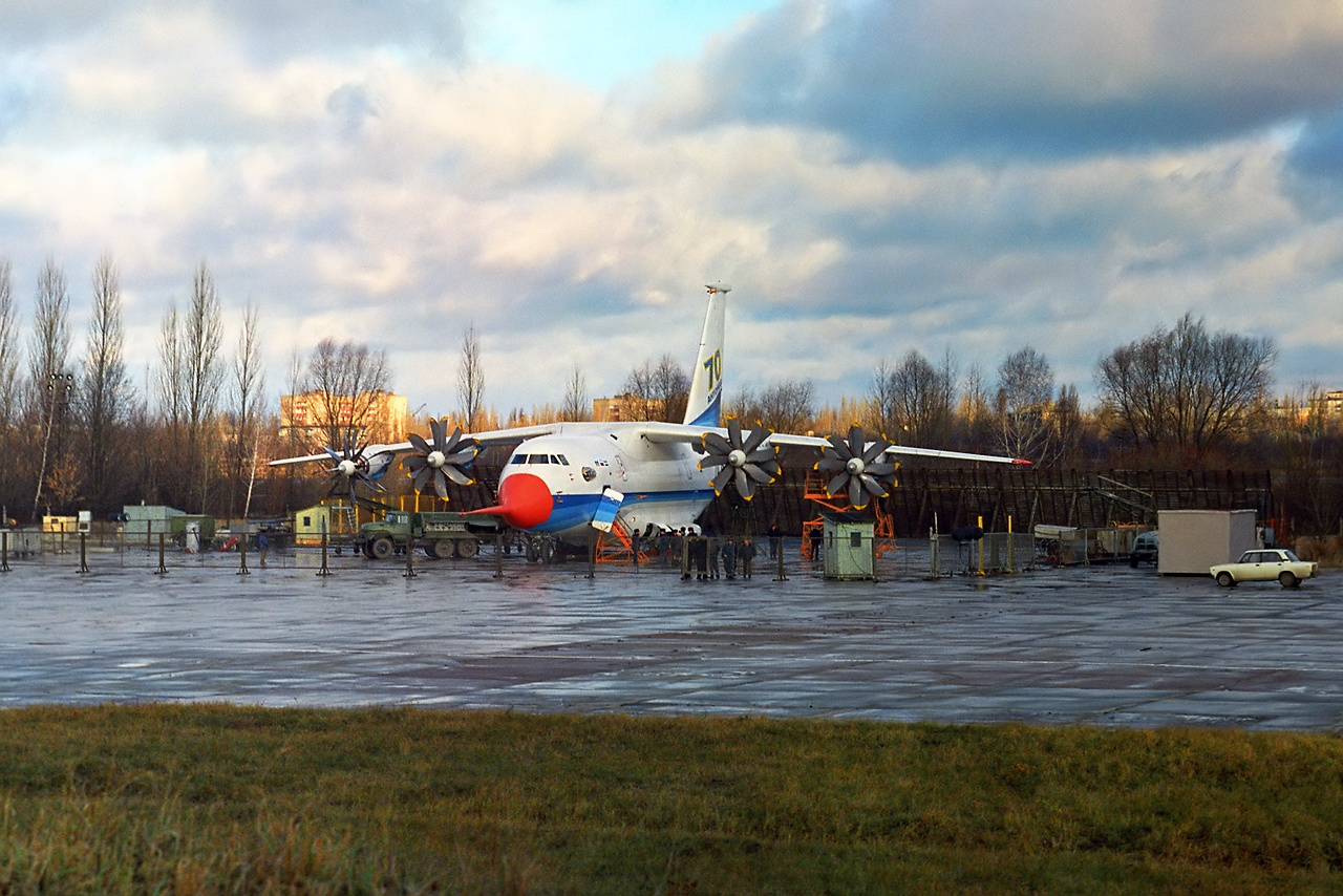 The first prototype of An-70: one month before the first flight / scanned from AGFA colour negative film